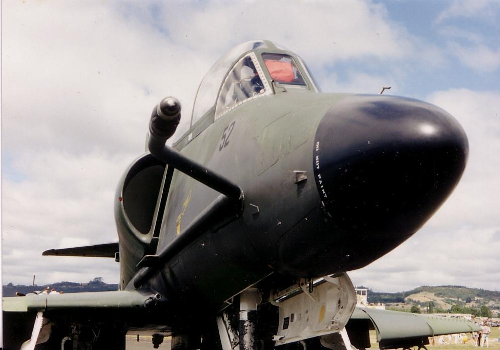 A-4 Skyhawk Kahu of No. 75 Squadron RNZAF at Whenuapai in the late 1980s.